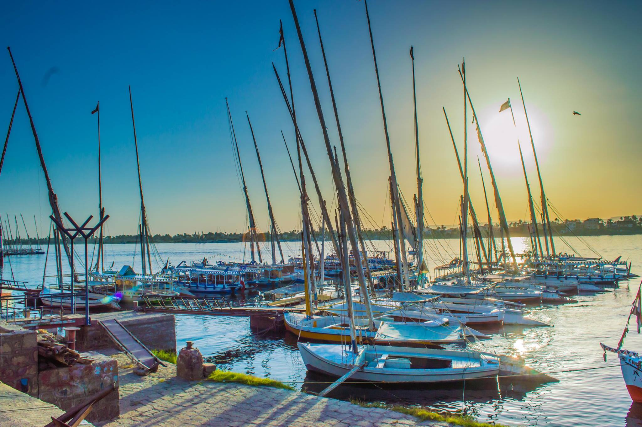 Luxor Egypt